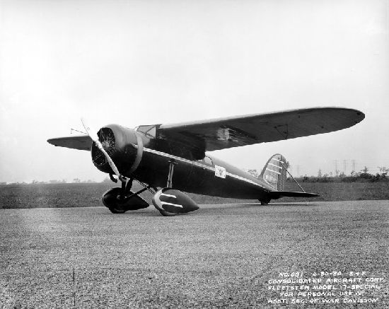 Consolidated Model 17-Special (Y1C-11) "Fleetster" aircraft, purchased by the United States Army Air Corps for use as an executive transport by the Assistant Secretary of War.